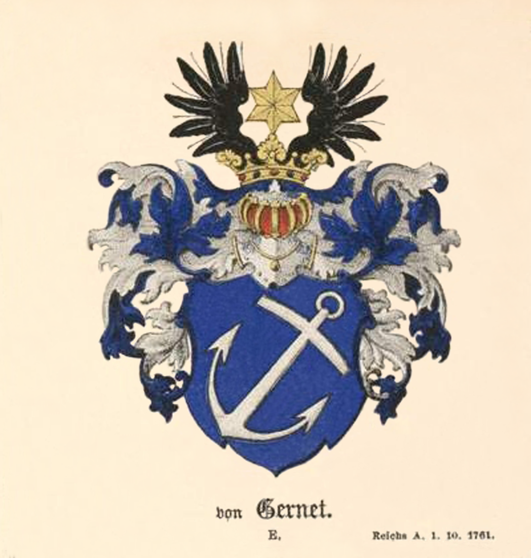 Coat of arms of Gernet